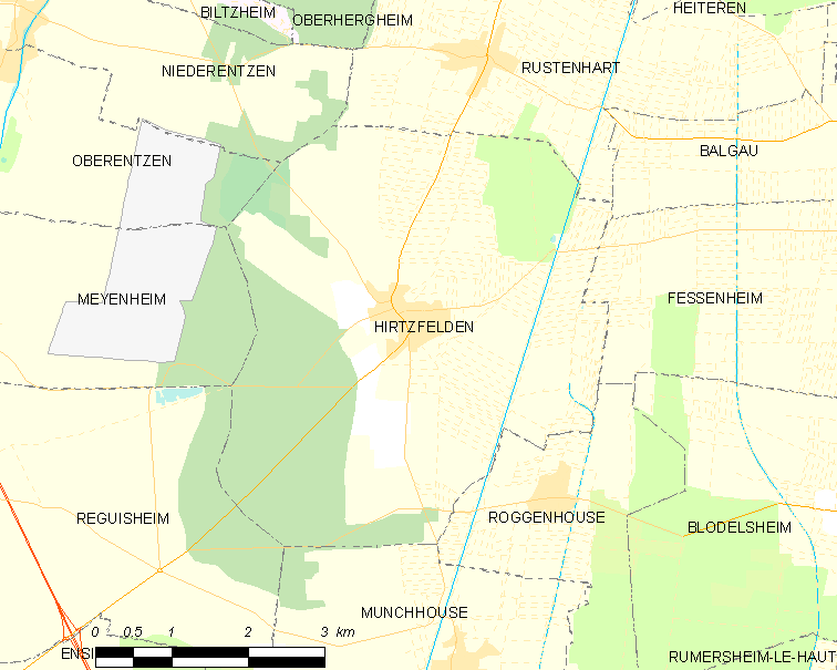 Map of French municipality